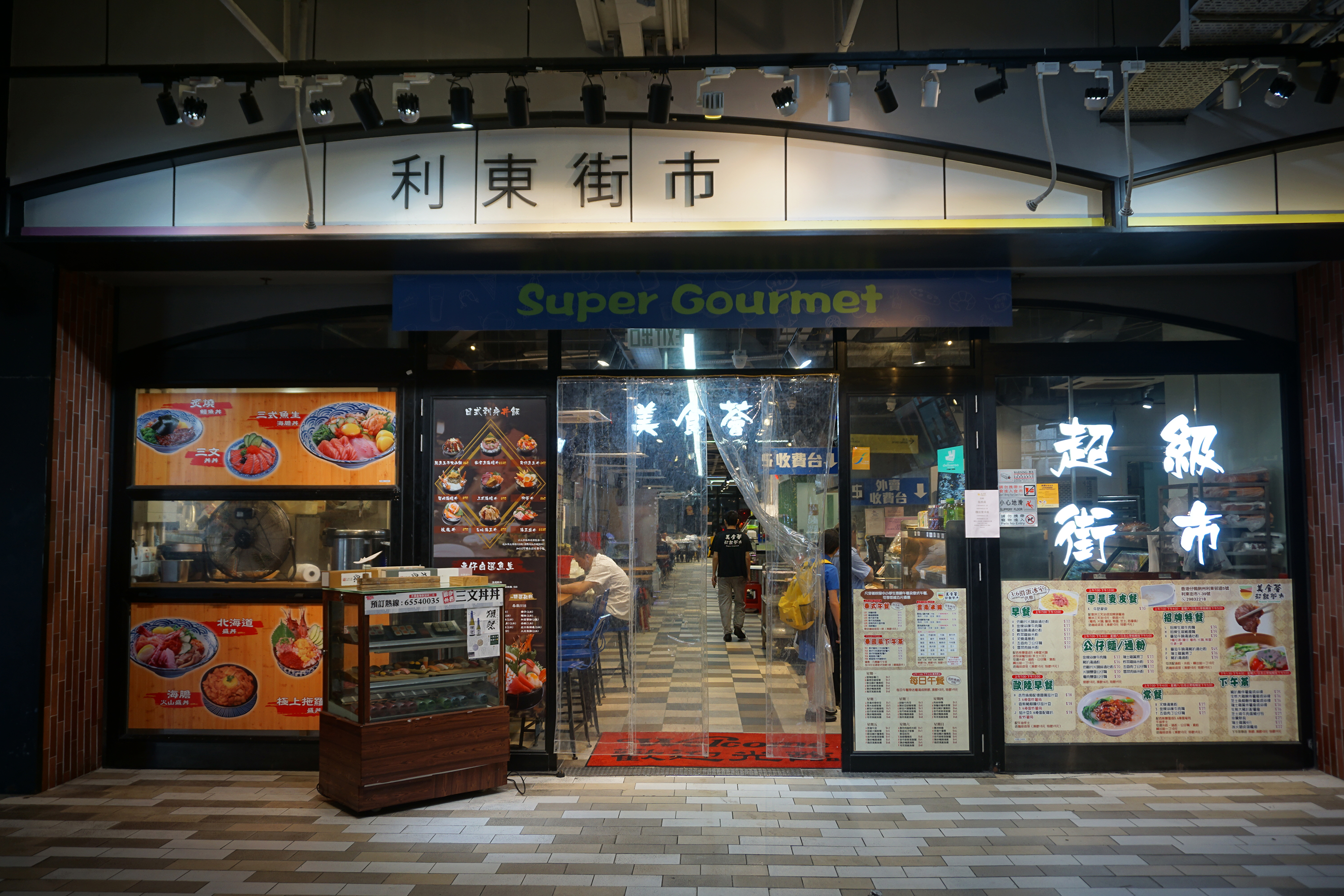 Lei Tung Market in Ap Lei Chau, Hong Kong.